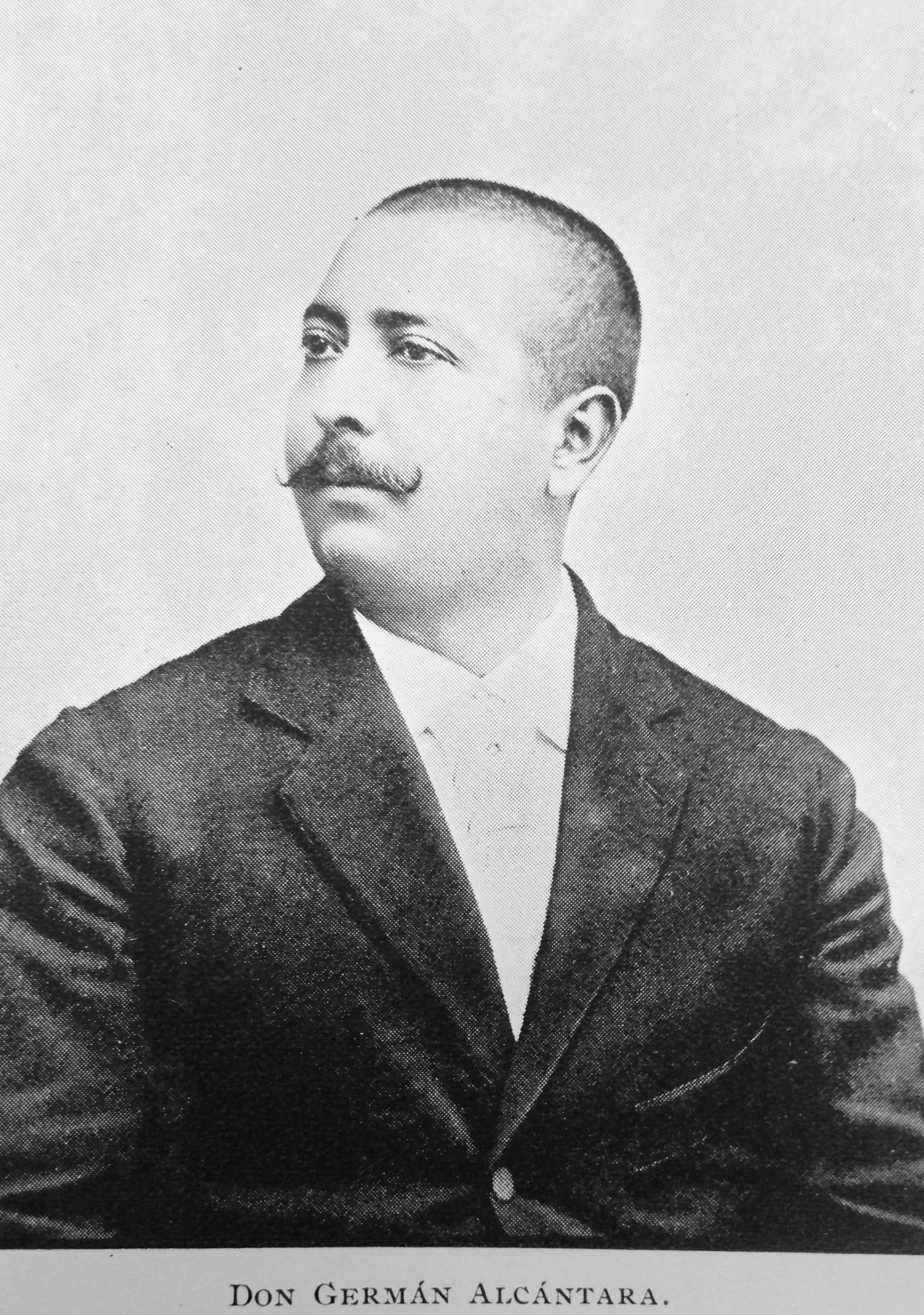 Maestro guatemalteco German Alcántara, en 1898.